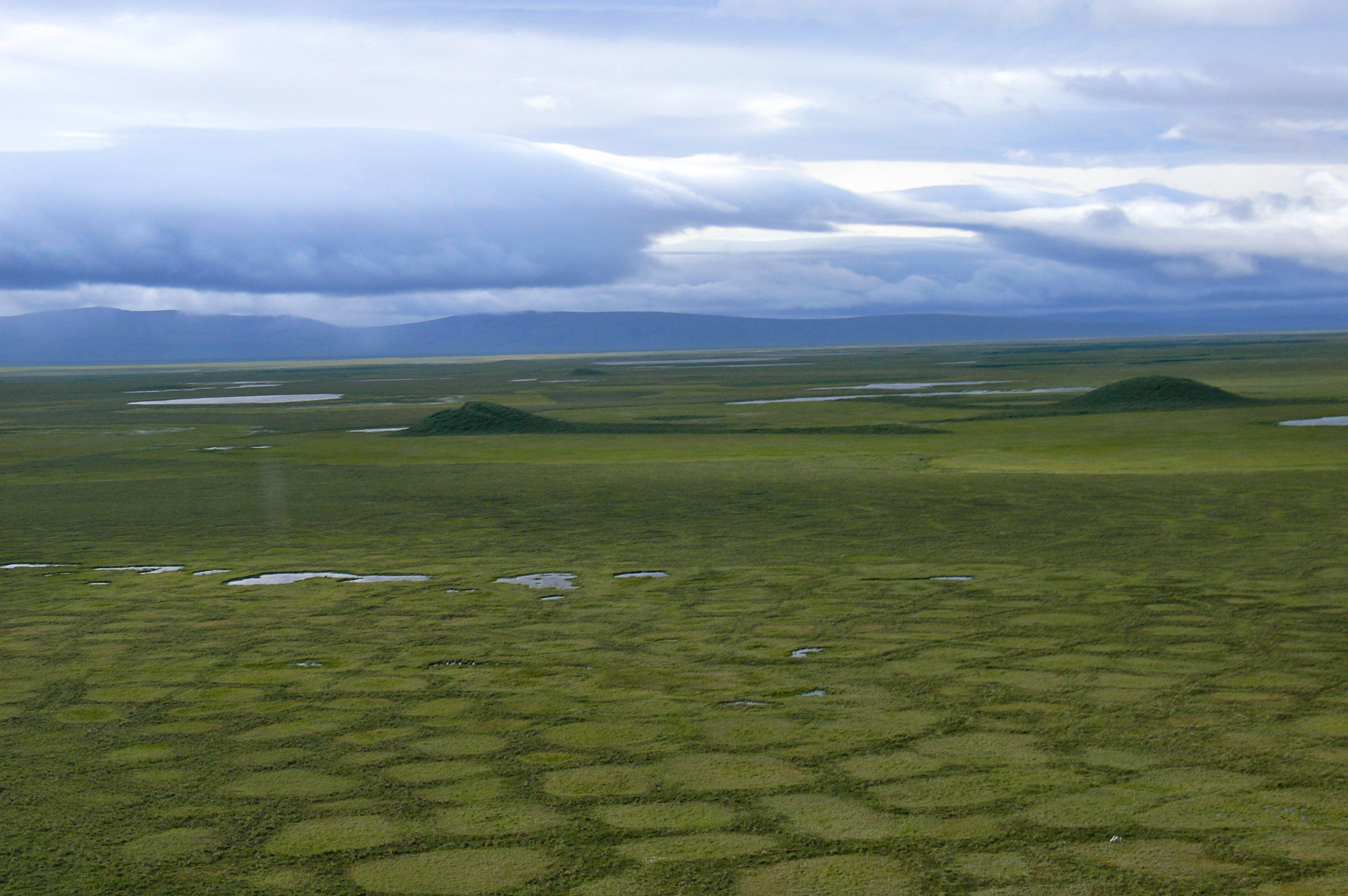 Unique arctic landforms are found in Bering Land Bridge National Preserve. Pingos (the hill like structures) are actually formed by water and permafrost. Tundra polygons, or patterend ground, are also characteristic of periglacial environments.